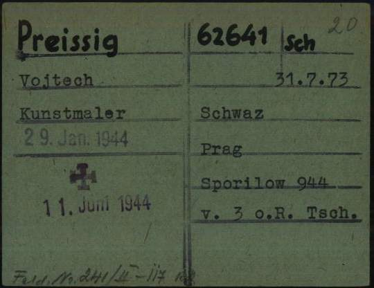 Registration card of Vojtěch Preissig as a prisoner at Dachau Nazi Concentration Camp. The stamped cross signals the day of his death.